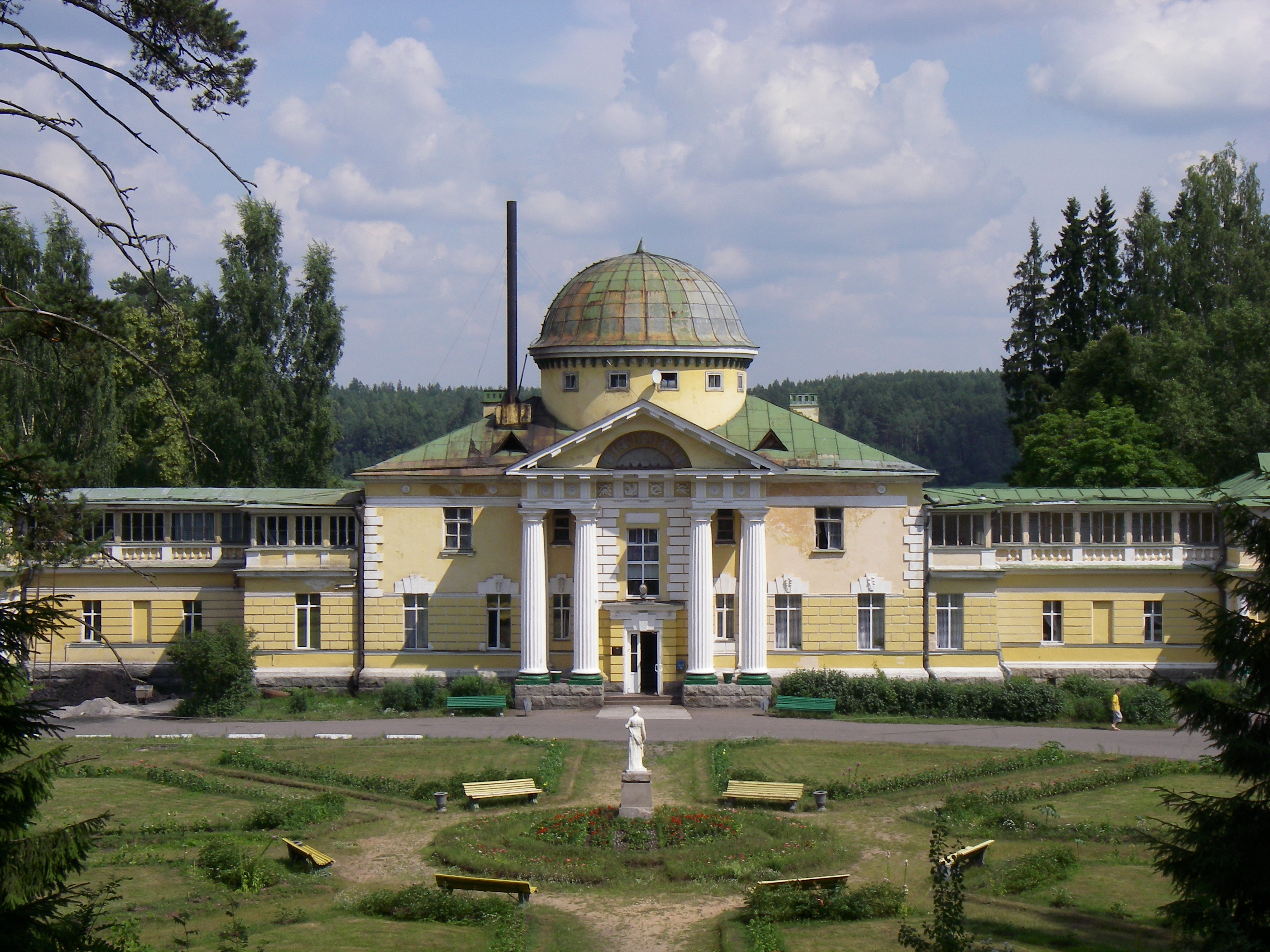 Borovoe manor